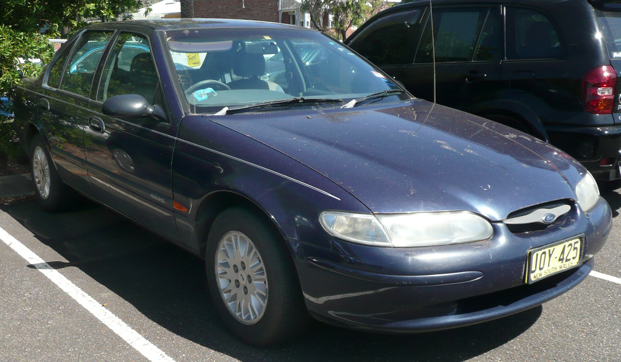 1997 Ford Falcon (EL) GLi Sapphire sedan. Photographed in Sutherland, New South Wales, Australia.